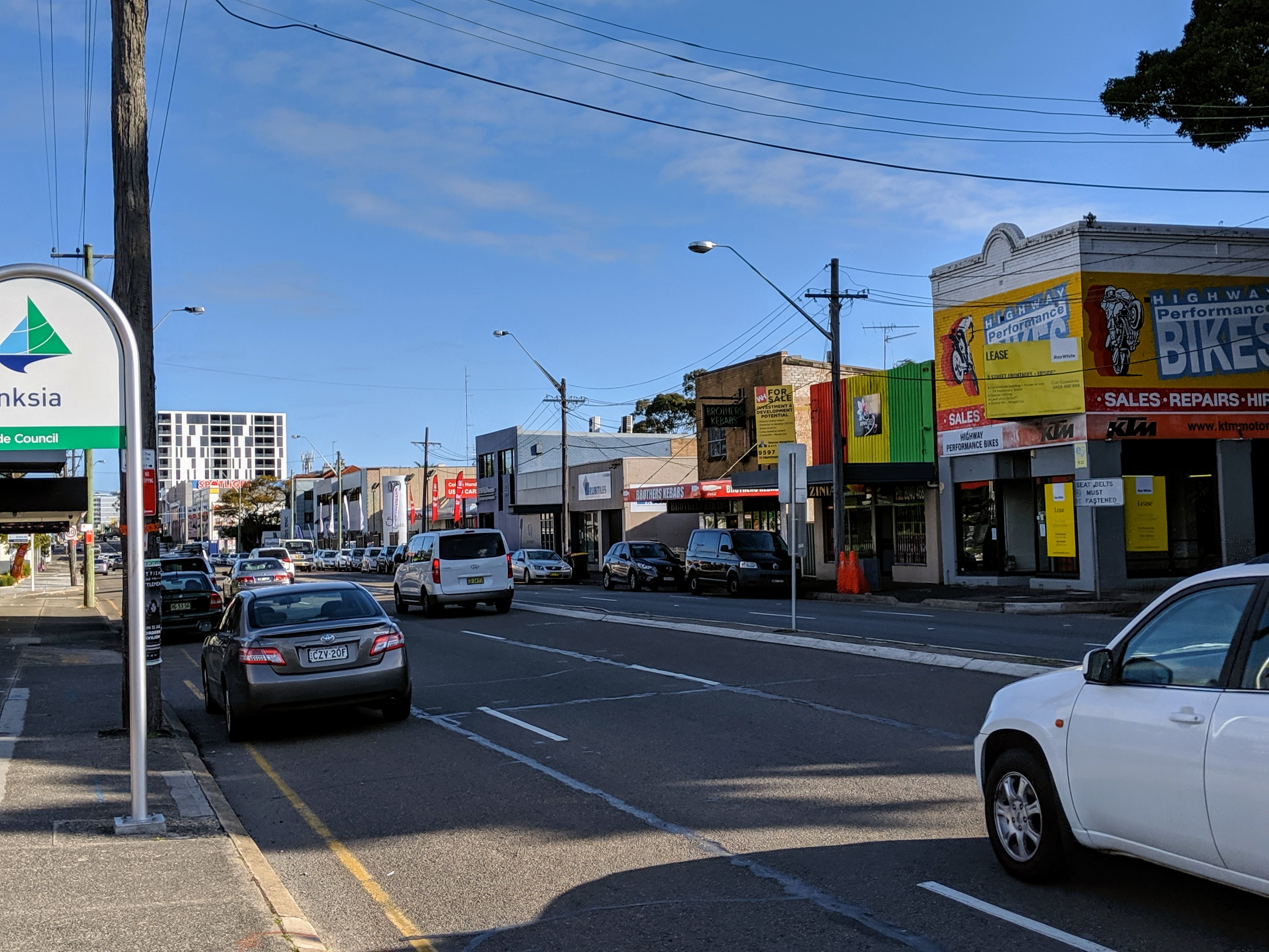 Shops in Banksia along Princes Highway